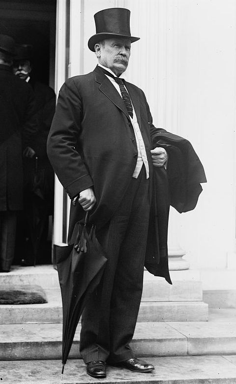 Former Tennessee governor Benton McMillin (1845–1933)